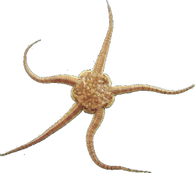 Taken on the R.V. Belgica, on sampling campaign St0504 on the BCS. Lab image.